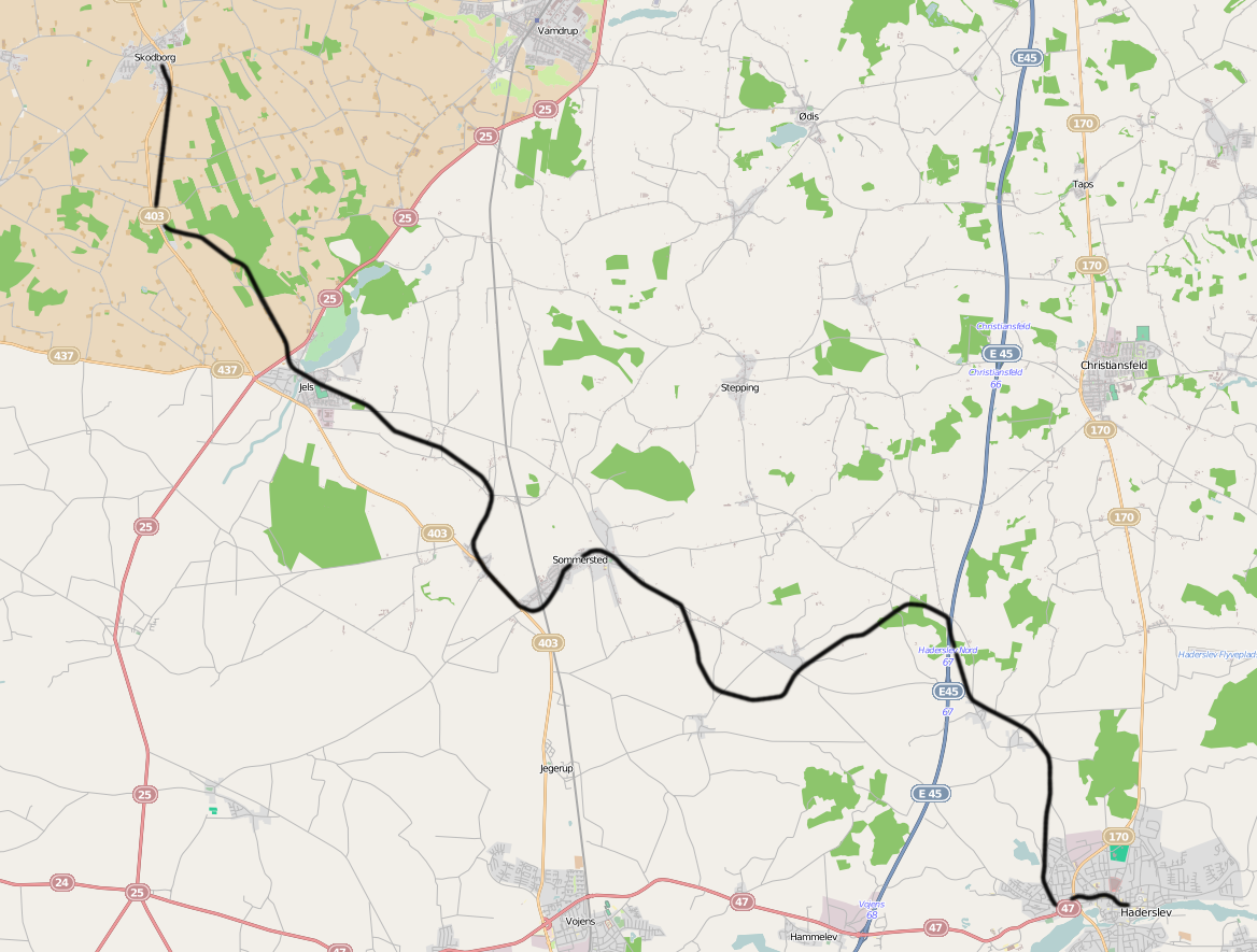 Railway line Haderslev - Skodborg